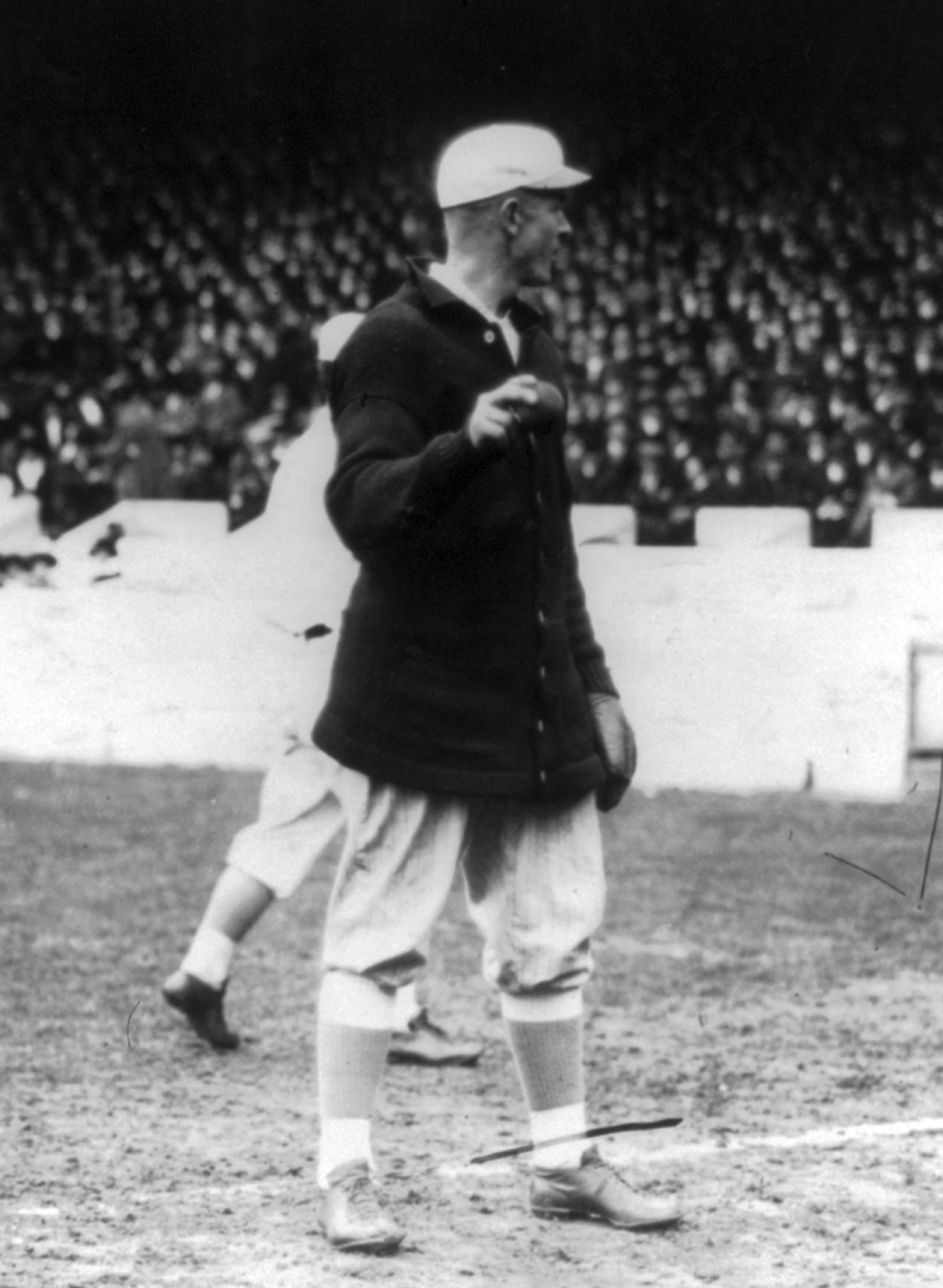 Christopher Mathewson, New York NL, c. 1913